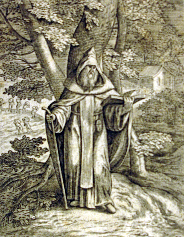 This etching is privately owned by Collection Cos